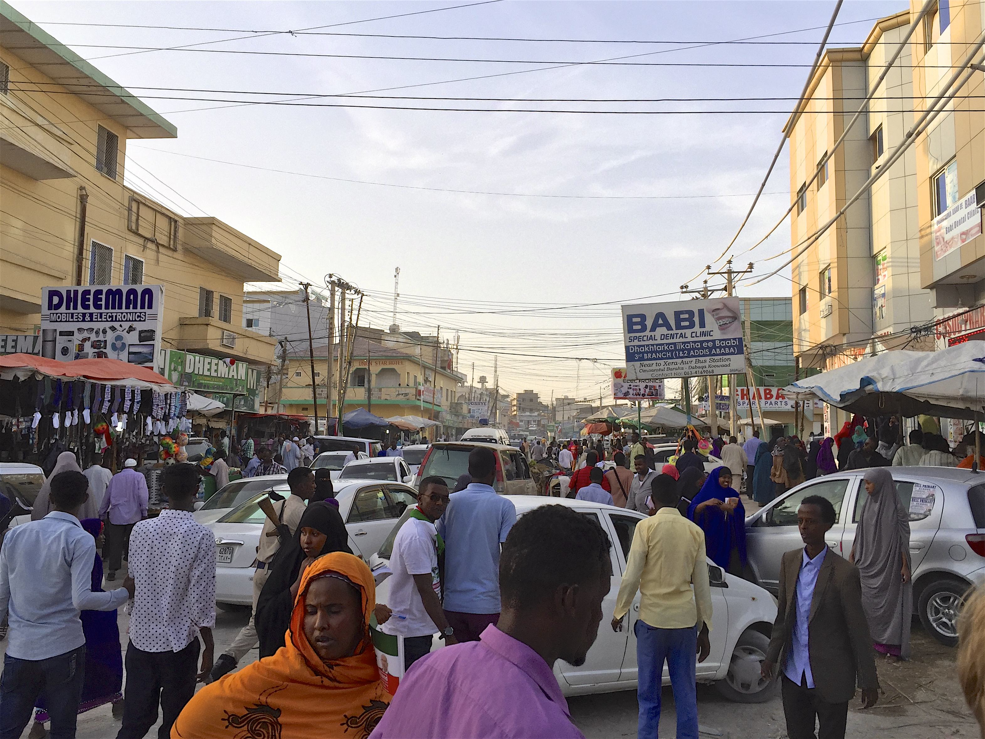 Celebrating Somalilands Independence Day